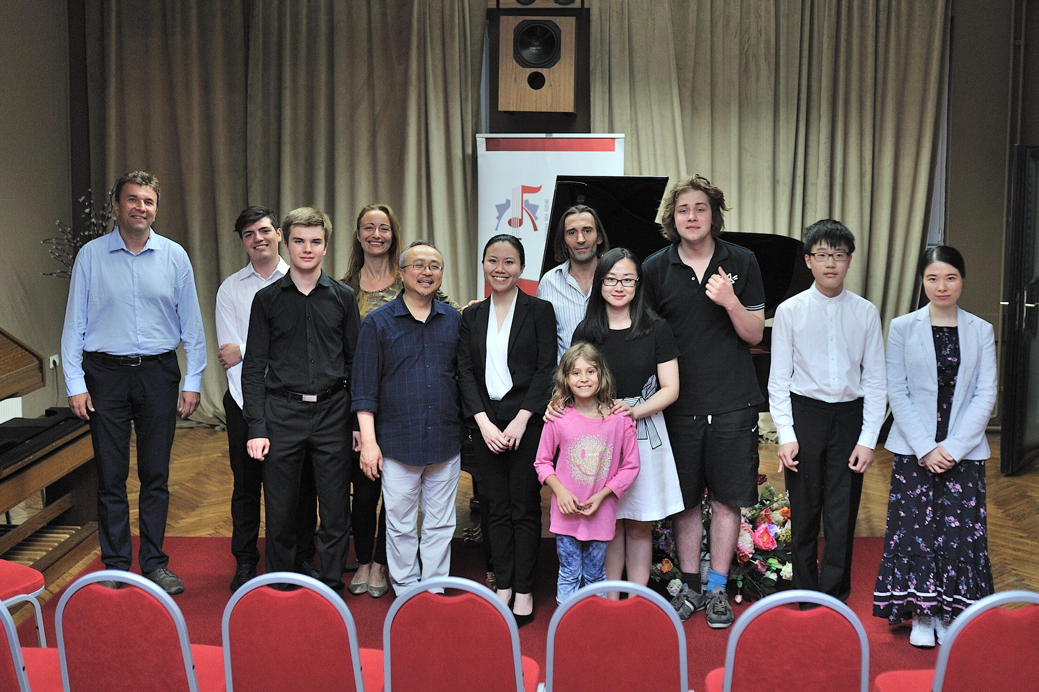 After the closing recital. Festival faculty with the participants.